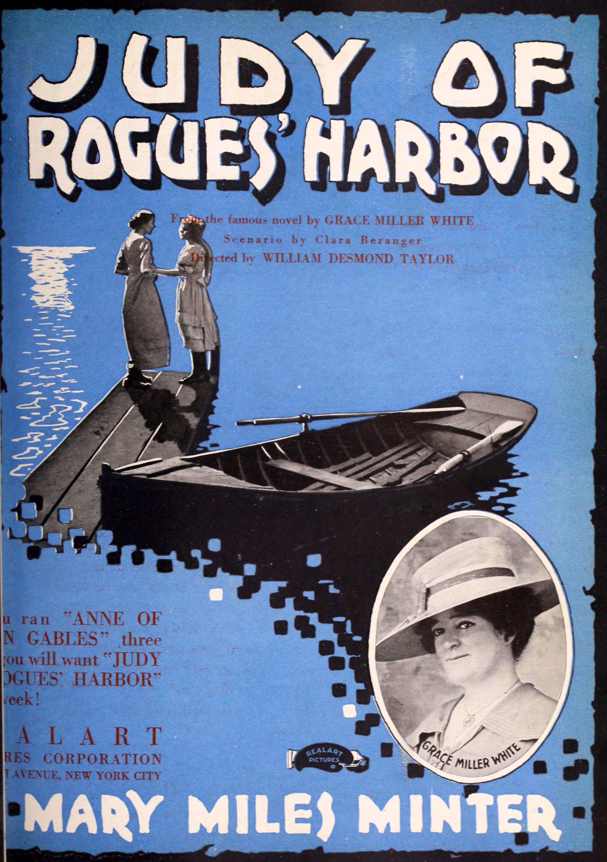 Advertisement for the American film Judy of Rogue's Harbor (1920) with Mary Miles Minter and author Grace Miller White, from the insert after page 2 of the January 31, 1920 Exhibitors Herald.